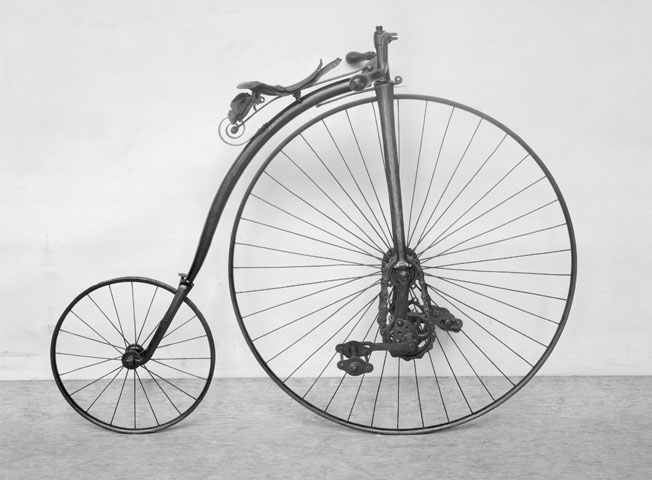 An object from the collections of the Science Museum (London) as copied from their ObjectWiki.